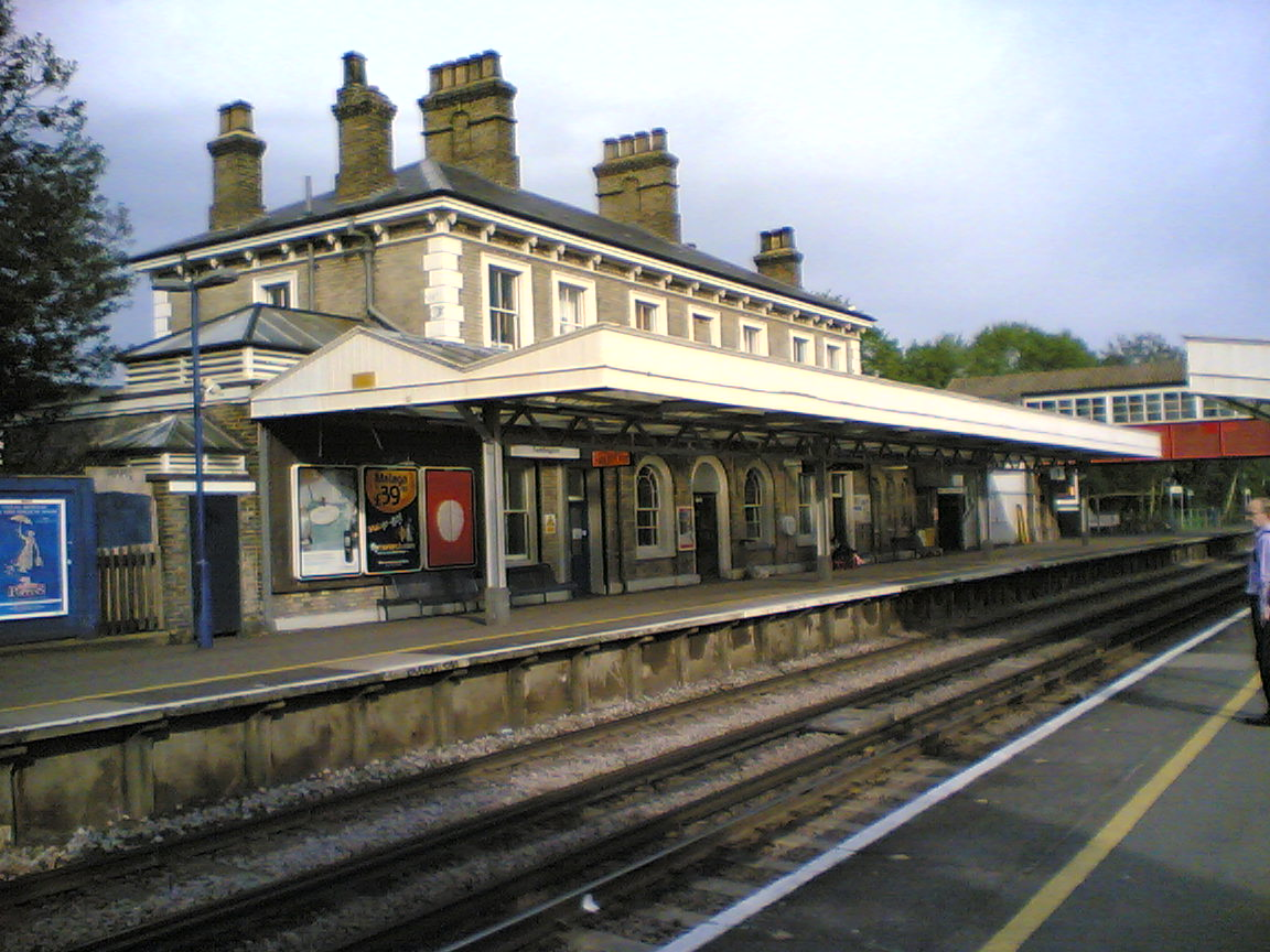 The Teddington train station. Photographed by Reiner Martin (with a Nokia 7610 camera phone).